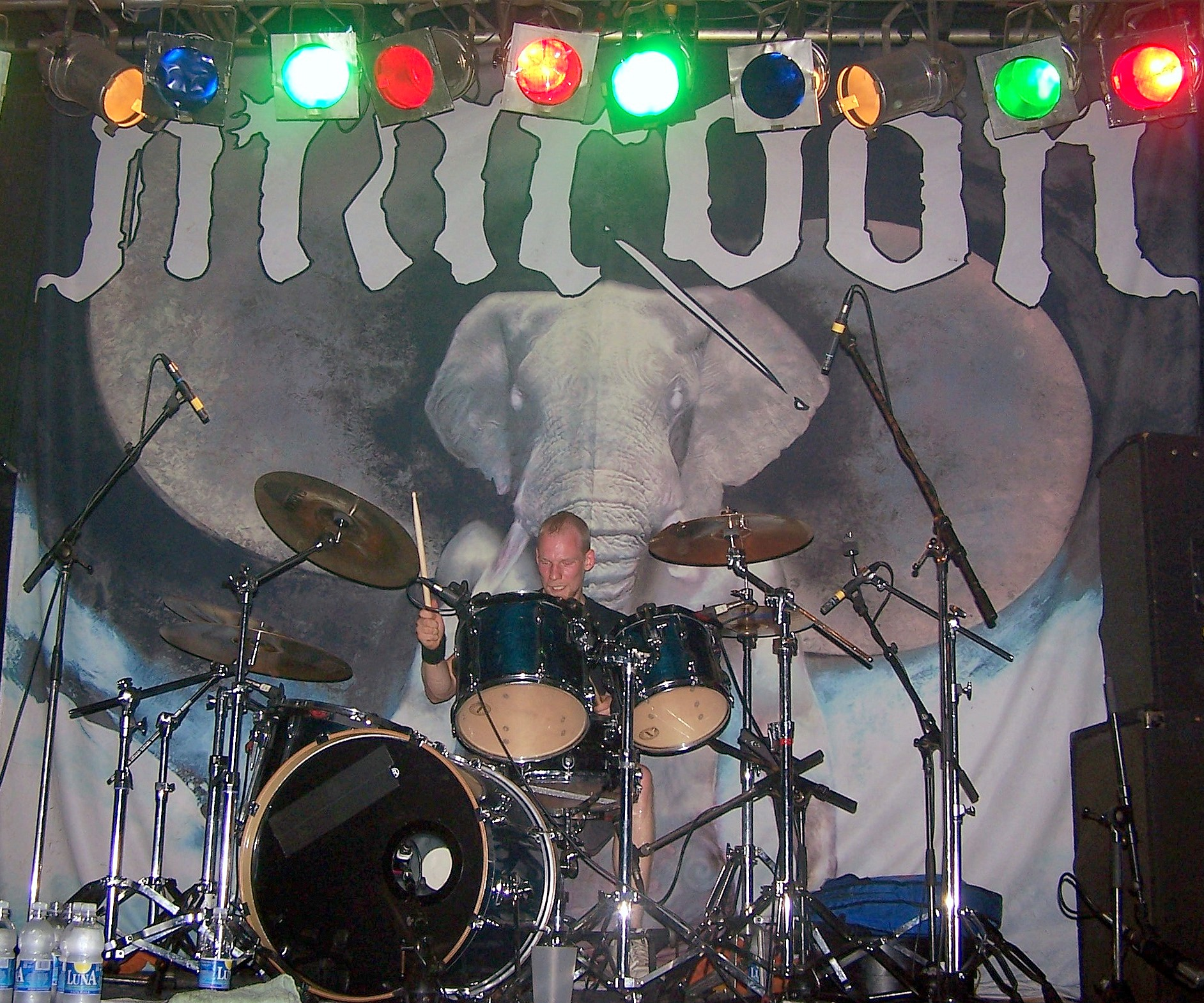 Nick Wachsmuth of Maroon at Hell On Earth 2006 in München. 2006, September 28